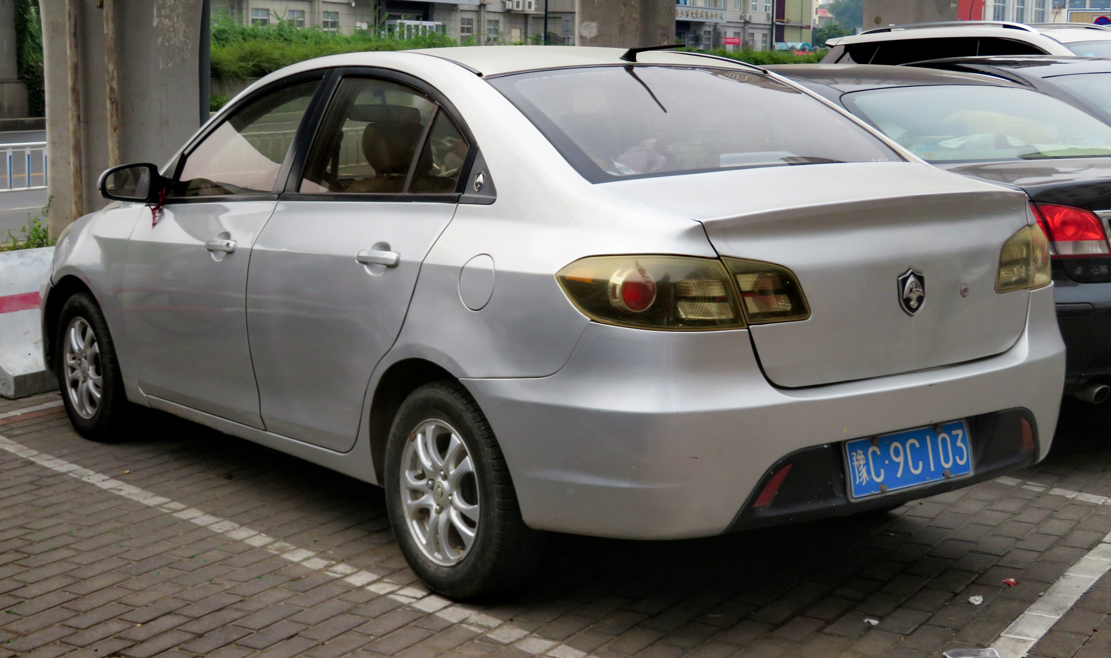 A 2010 Chang'an Alsvin photographed in Xigong District, Luoyang, Henan province, China